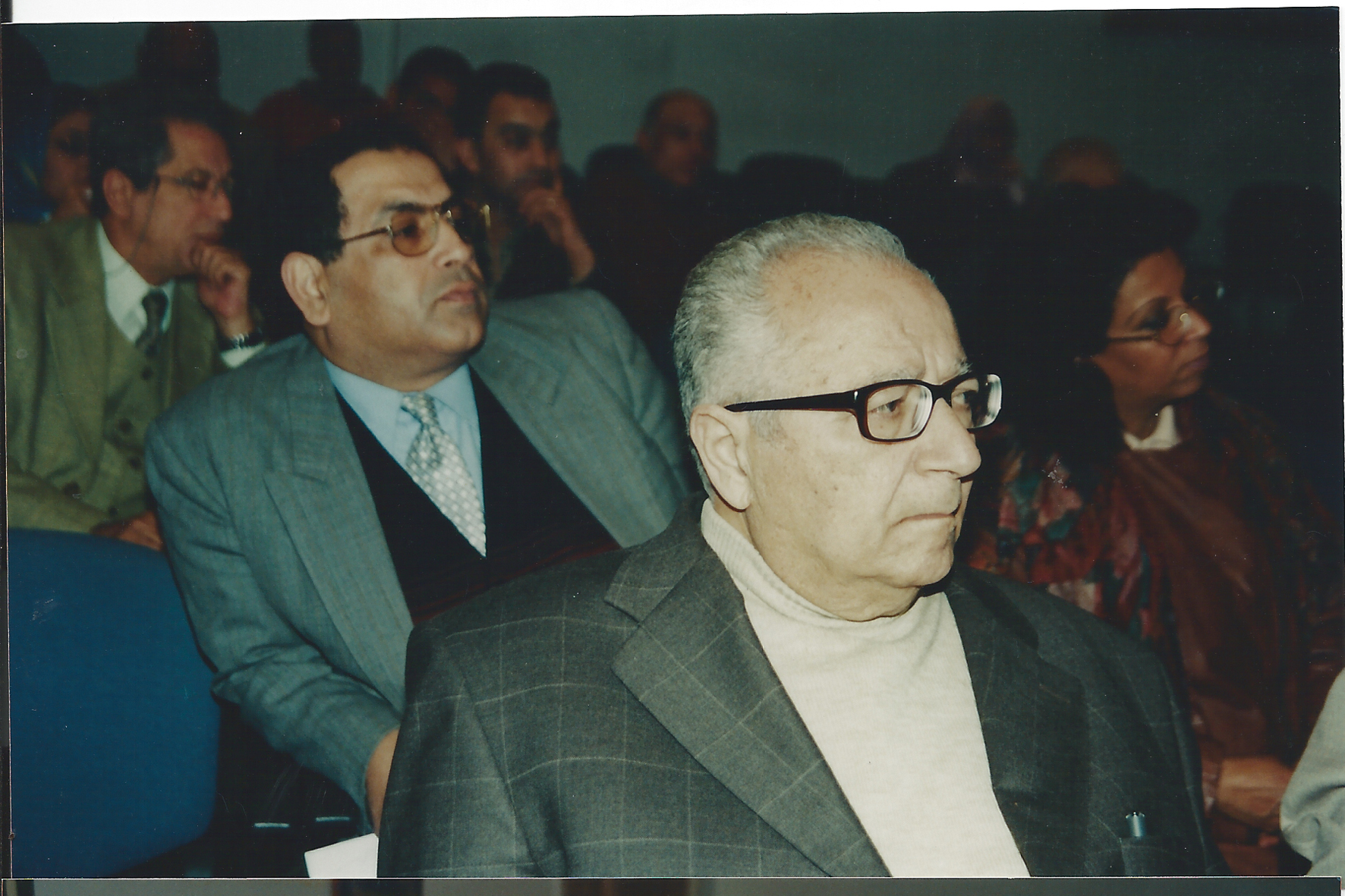 Dr. Awni Abdul Rauf In the back, Dr. Saeed Beheiri